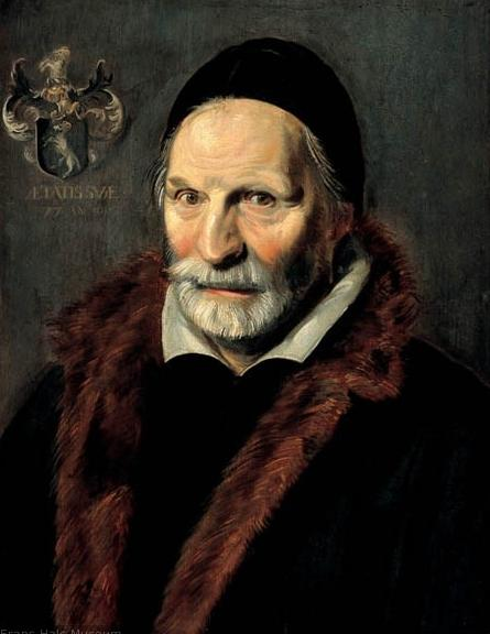 Portret of Jacobus Hendricksz Zaffius, the Catholic archdeacon for the underground Catholics of Haarlem. An old man at the time the painting was made, he witnessed the siege of Haarlem and the subsequent loss of the central Haarlem Catholic St. Bavo Cathedral to the Protestants. Though still active for the Catholic underground church, he was tolerated and not harassed by the Haarlem council. He sponsored 5 rooms for the Frans Loenen Hofje in 1609, which was memorialized with a plaque that states "Quinque camera a praeposito Zaffio Fundate A.1609". ÆTATIS SVAE 77 ANo 1611 This image is available from the Netherlands Institute for Art Historyunder digital ID 10811. This tag does not indicate the copyright status of the attached work. A normal copyright tag is still required. See Commons:Licensing.